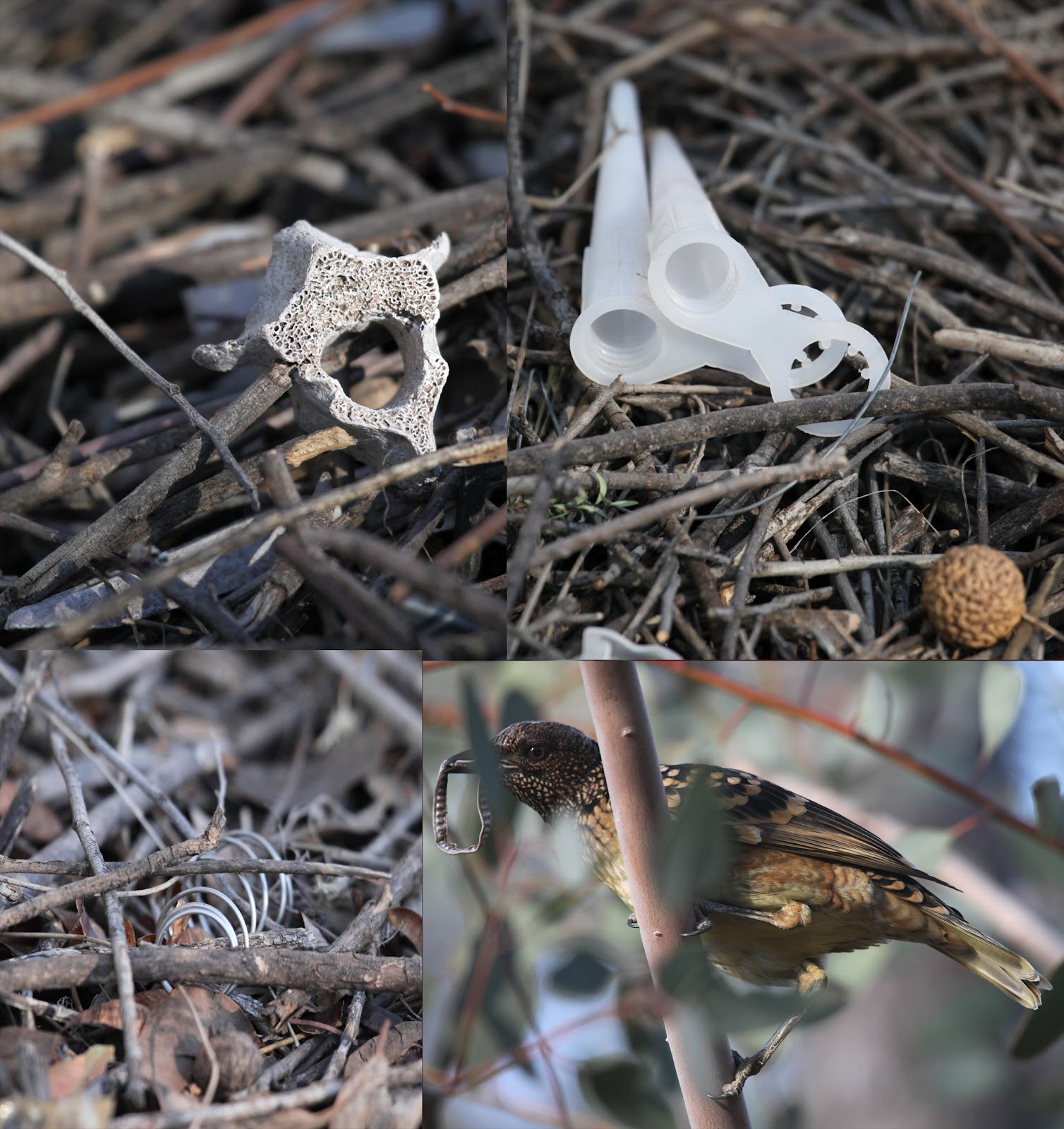 Western Bowerbird (Chlamydera guttata), Northern Territory, Australia